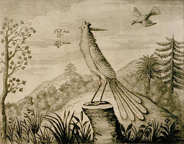 Image of a Fenghuang (Chinese Phoenix) drawn in the 1660s.